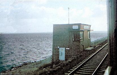 Signal box on the Hindenburgdamm, a causeway joining Sylt to mainland Schleswig-Holstein. Position: 54.884989, 8.561935